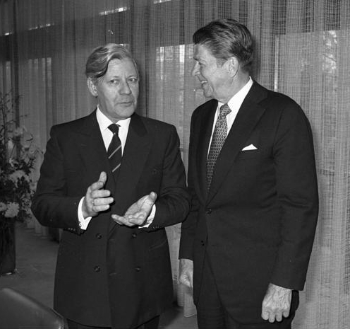 Title: Bonn, Helmut Schmidt, Ronald Reagan People in the image: Reagan, Ronald: 1911-2004; Schauspieler, Gouverneur von Kalifornien, 40. Präsident der Vereinigten Staaten, USA (GND 118598724) * Schmidt, Helmut: Bundeskanzler, Verteidigungsminister, SPD, Bundesrepublik Deutschland Factual corrections and alternative descriptions are encouraged separately from the original description. Additionally errors can be reported at this page to inform the Bundesarchiv. Original historic description: Bundeskanzler Helmut Schmidt und Ronald Reagan